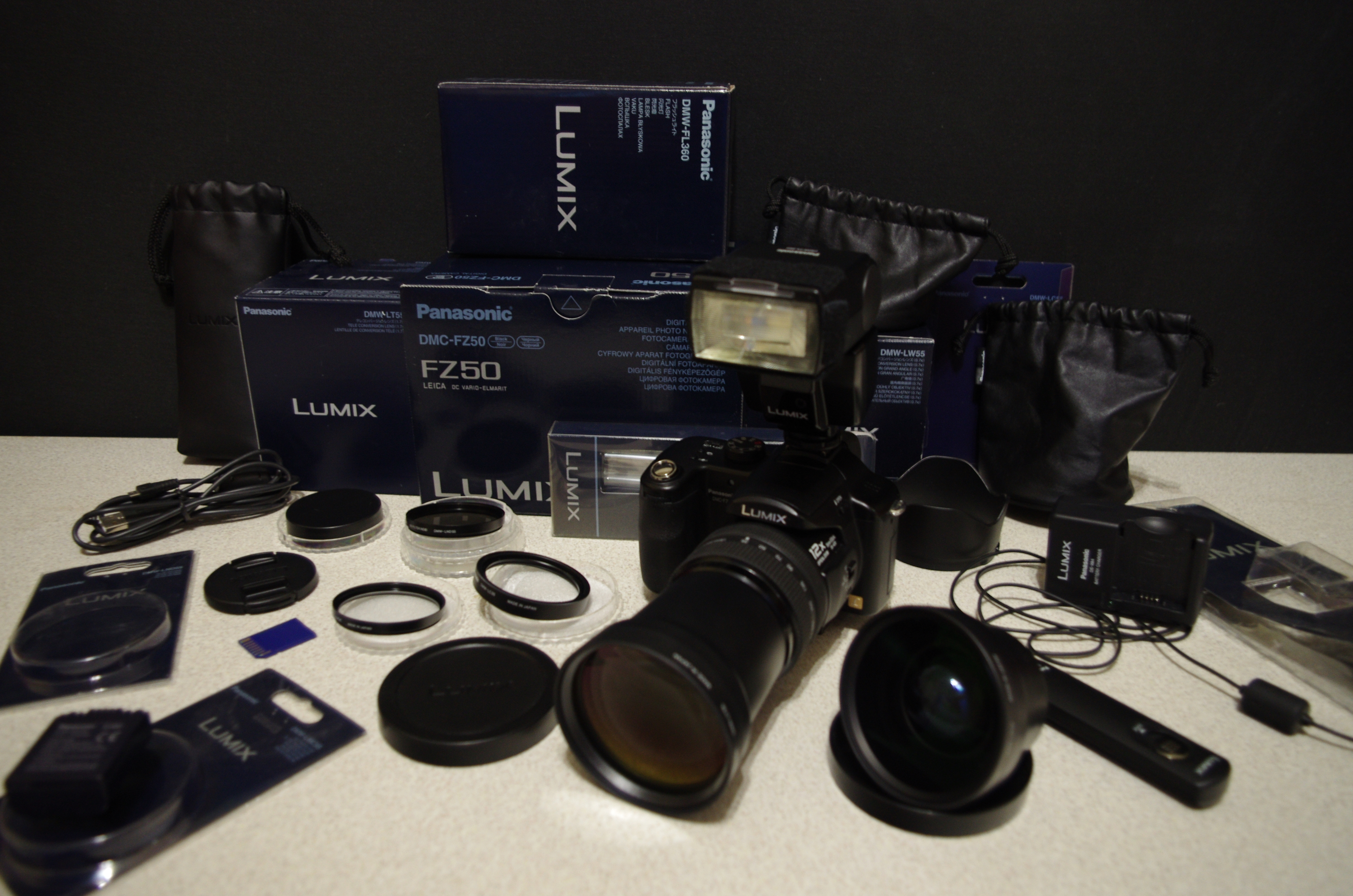 Panasonic Lumix FZ-50 + All additional accessuares